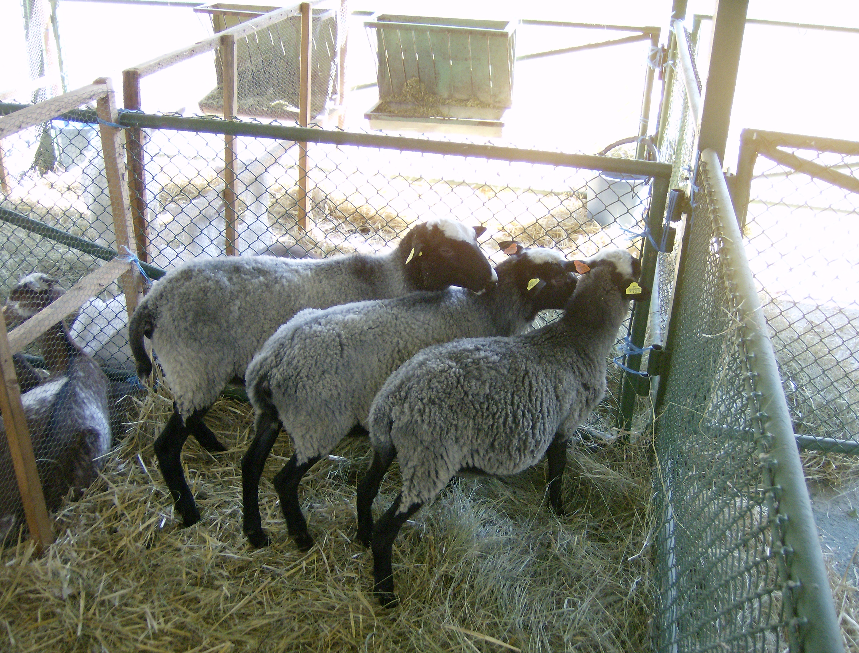 Romanov sheep, Male lambs